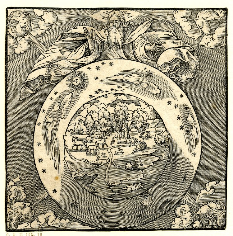 Woodcut by Hans Brosamer for the 1550 Frankfurt edition of the Small Catechism of Martin Luther, "I believe in God the Father Almighty, Maker of heaven and earth".